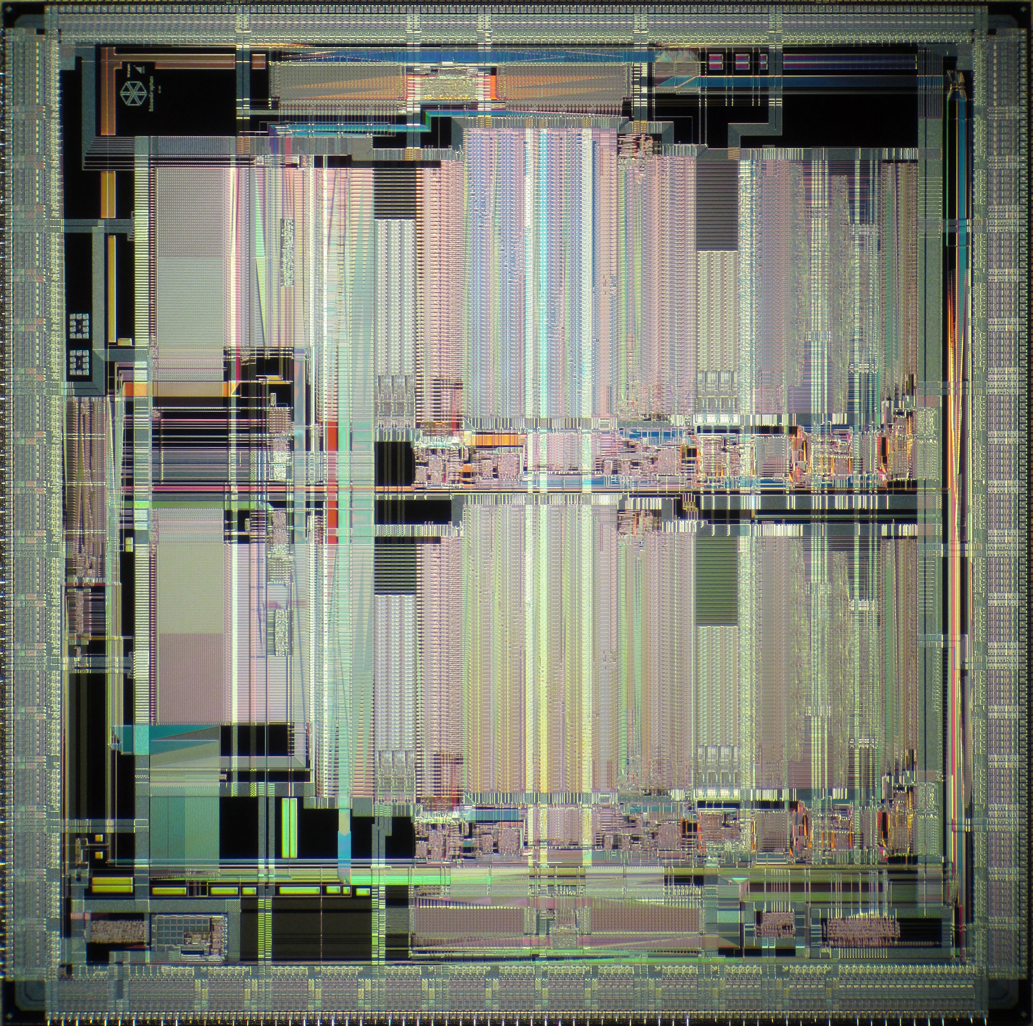 Die shot of Toshiba T5F52 that is R8010 MIPS floating-point unit.